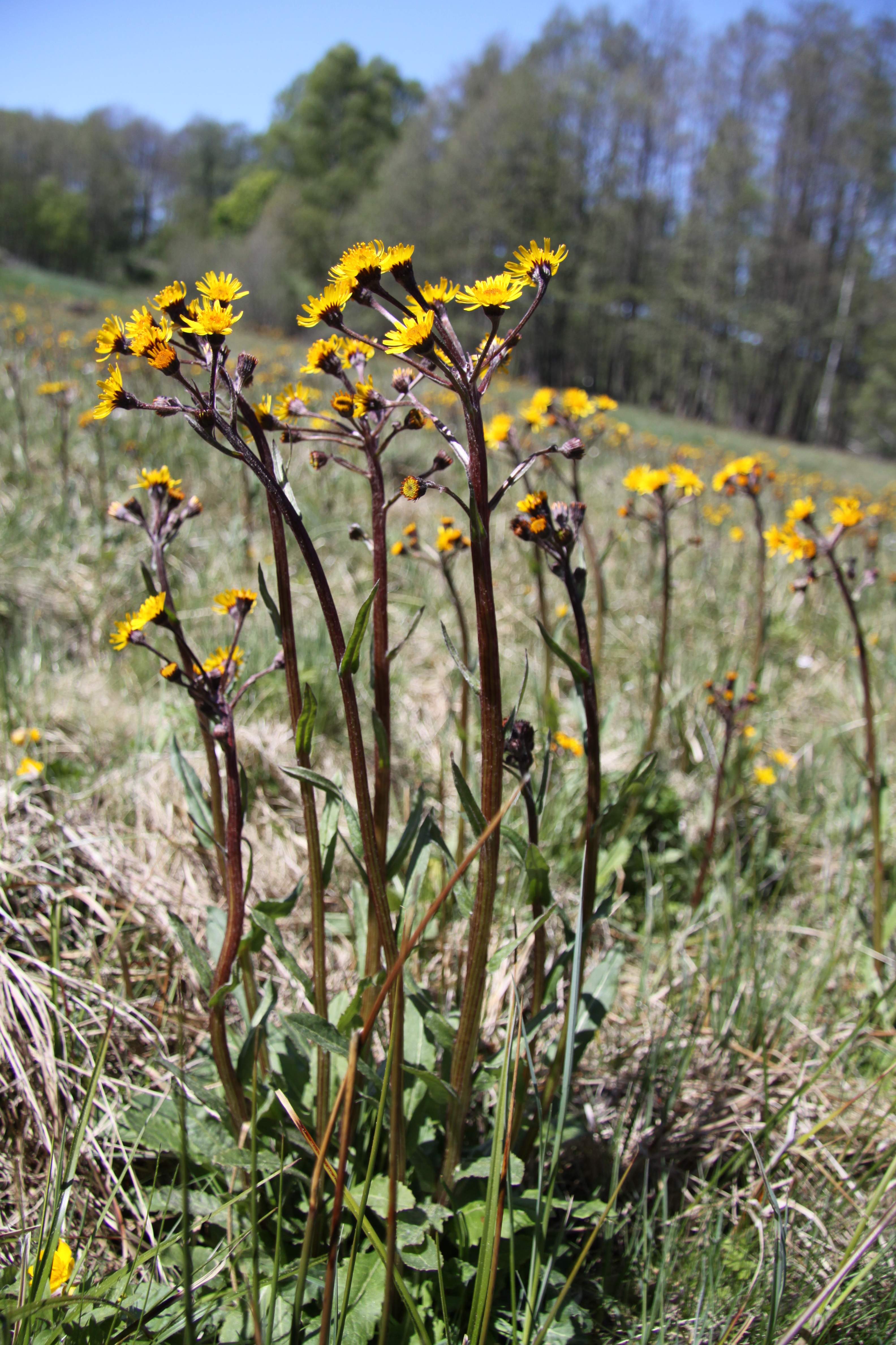 Tephroseris crispa. Natural monument Podhájí near Vacov village in Prachatice District, Czech Republic - Google Maps - Google Earth